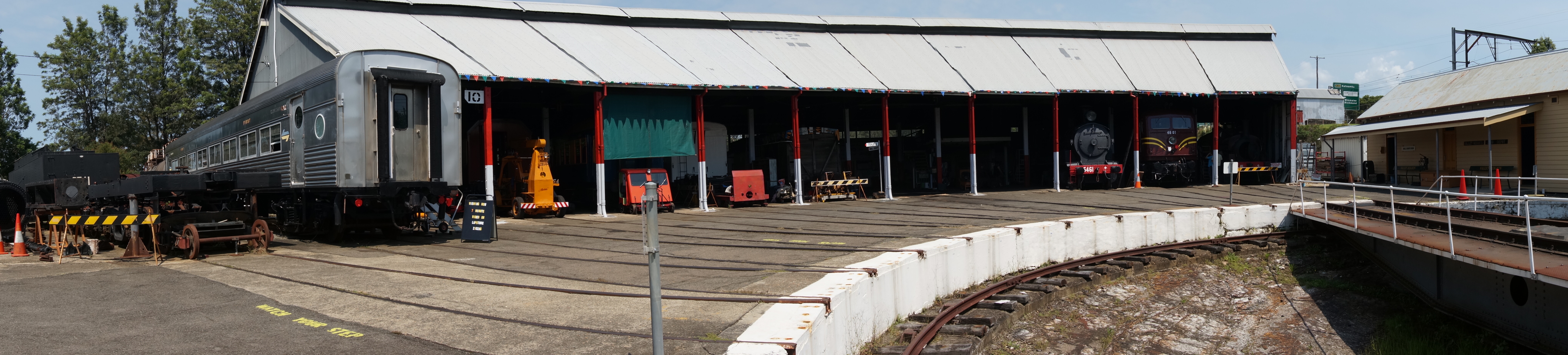 Valley Heights Locomotive Depot